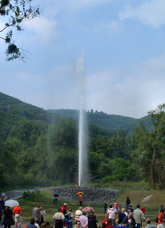 Geysir Andernach in Andernach, the world highest cold-water geyser